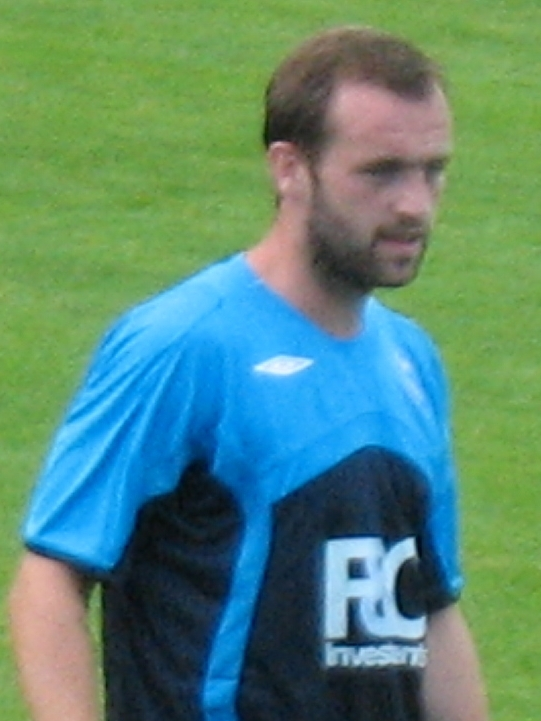 Scotland international footballer James McFadden of Birmingham City F.C. at the pre-season friendly against VfB Stuttgart in Zell am See, Austria